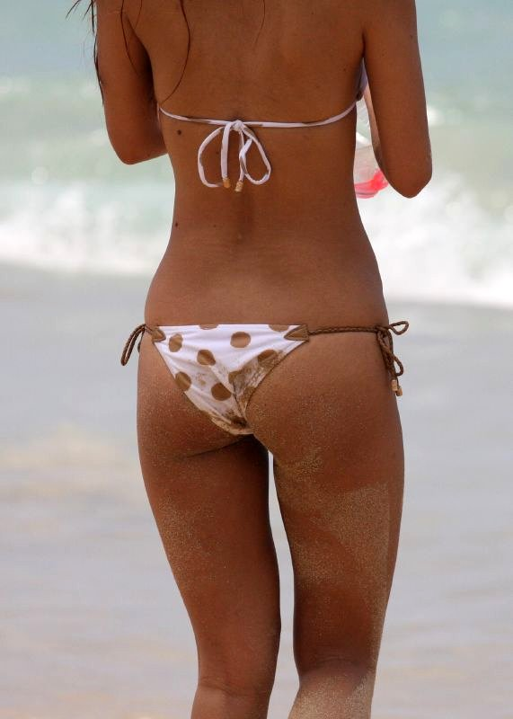 Young woman wearing a small bikini on Waikiki beach walking towards the sea.